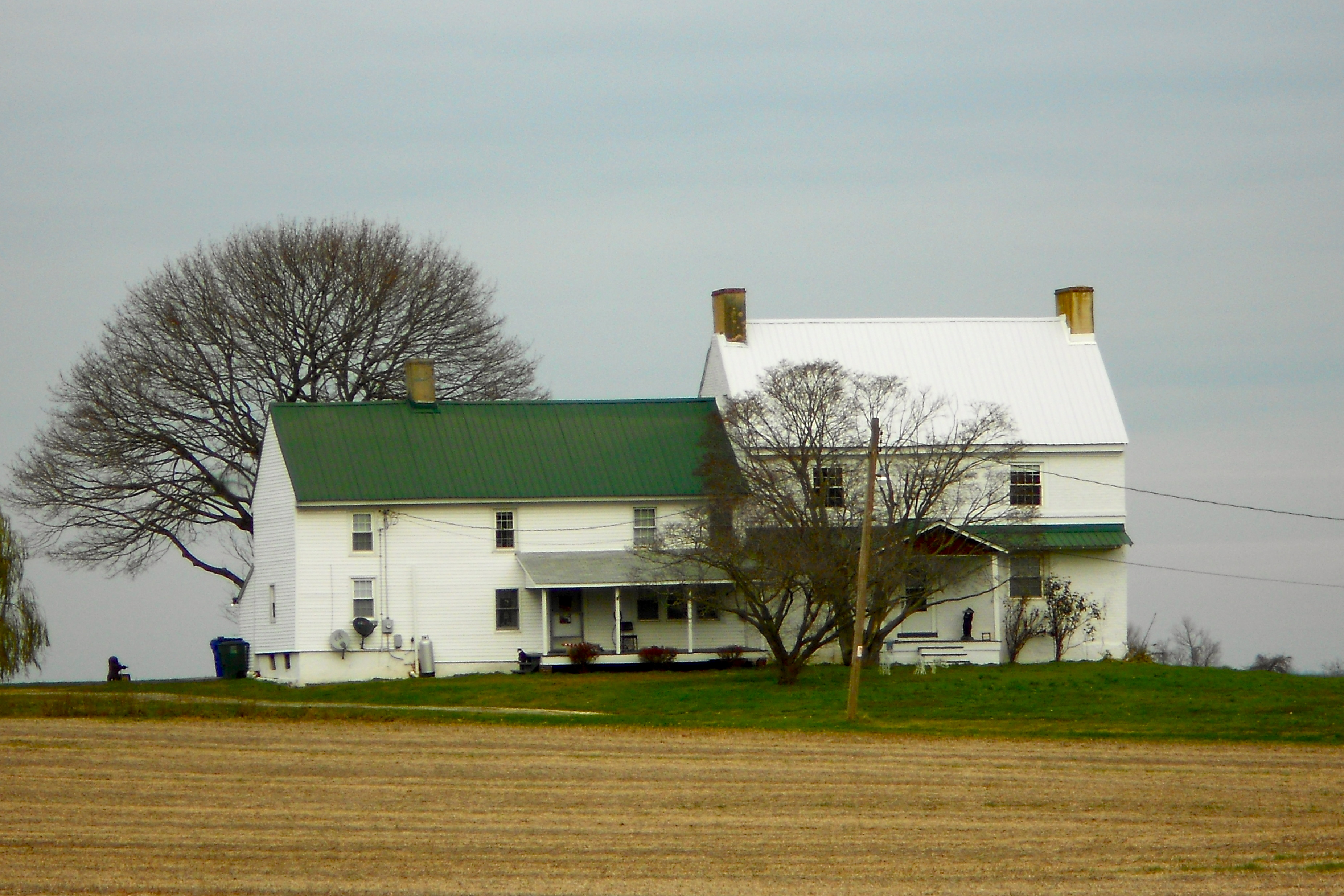 John Aston house in Ashton Historic District on the NRHP since November 15, 1978. North of Port Penn, Delaware on Thornton Rd. District consists of about 3 farmhouses all owned at one time by the Aston family.